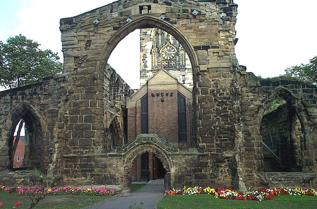 The New Church within the Old, All Saints, Bondgate, Pontefract. All Saints Church was badly damaged during the Civil War and a new Church has been constructed within the ruins. The Old Church has been recently renovated and made safe by English Heritage.